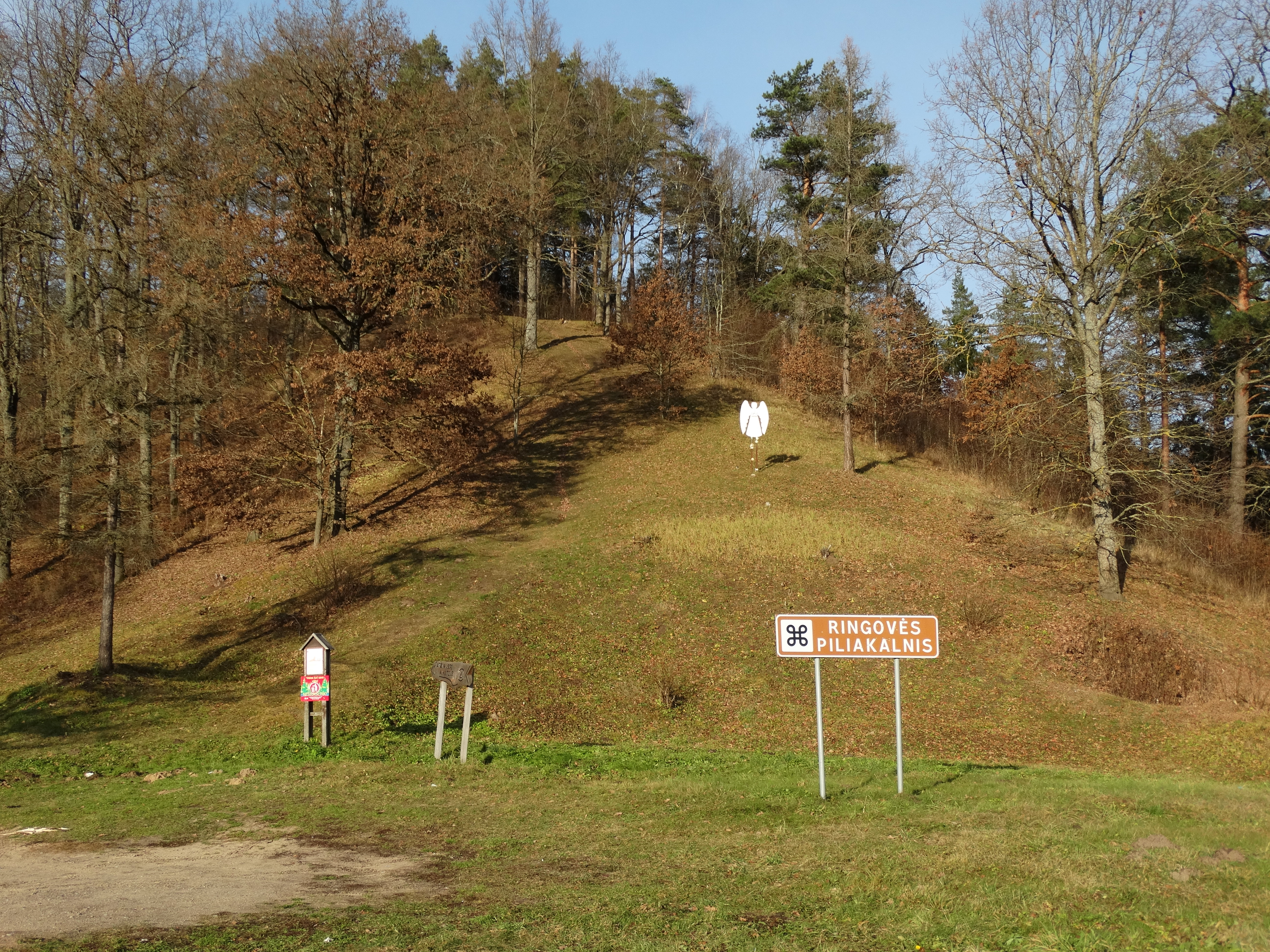 Hillfort, Ringovė, Kaunas district, Lithuania